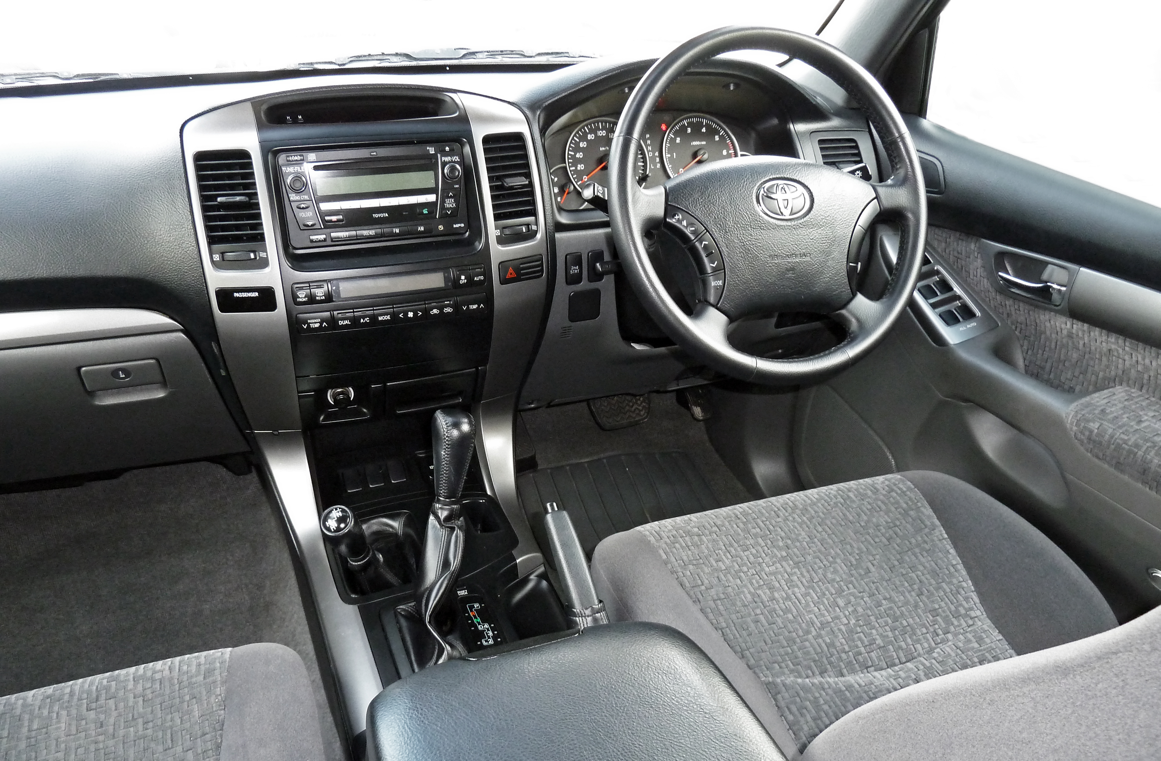 2007 Toyota Land Cruiser Prado (GRJ120R) GXL wagon. Photographed at Tynan Motors, Kirrawee, New South Wales, Australia.